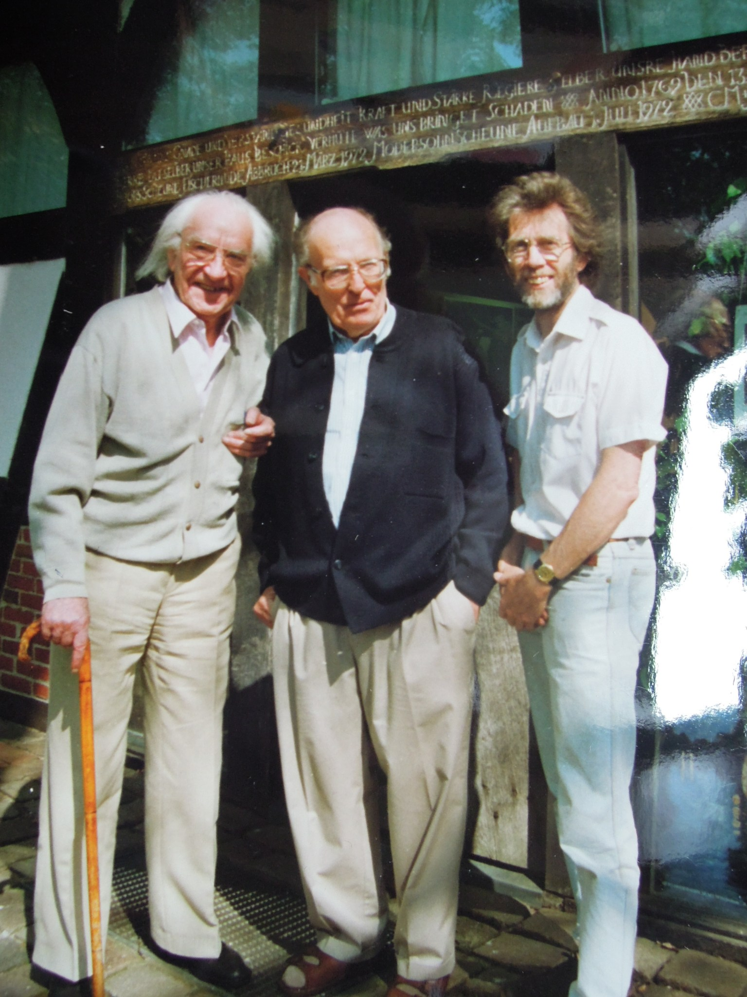 Gustav Kuennemann (painter), Christian Modersohn (painter) and Ulrich Brinkhoff (photography artist), 1993.